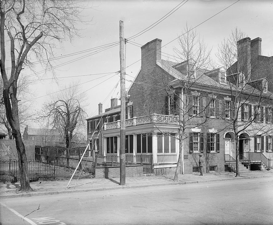 Home of Light Horse Harry Lee, Alex., Va. (Ford Motor Co.)